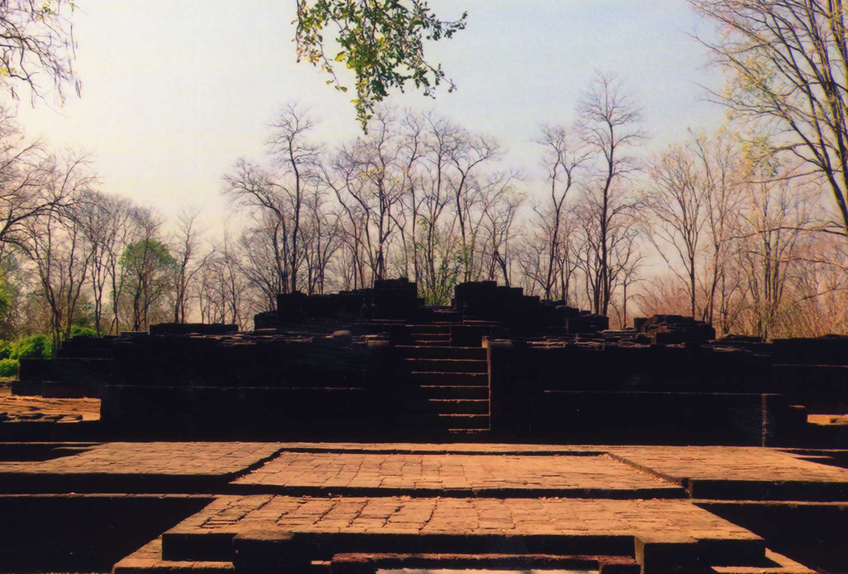 Mueang Sing historical park, Kanchanaburi, Thailand. View of the monument 2, of which only the foundations are existing. Photo taken by User:Ahoerstemeier on January 26 2005.